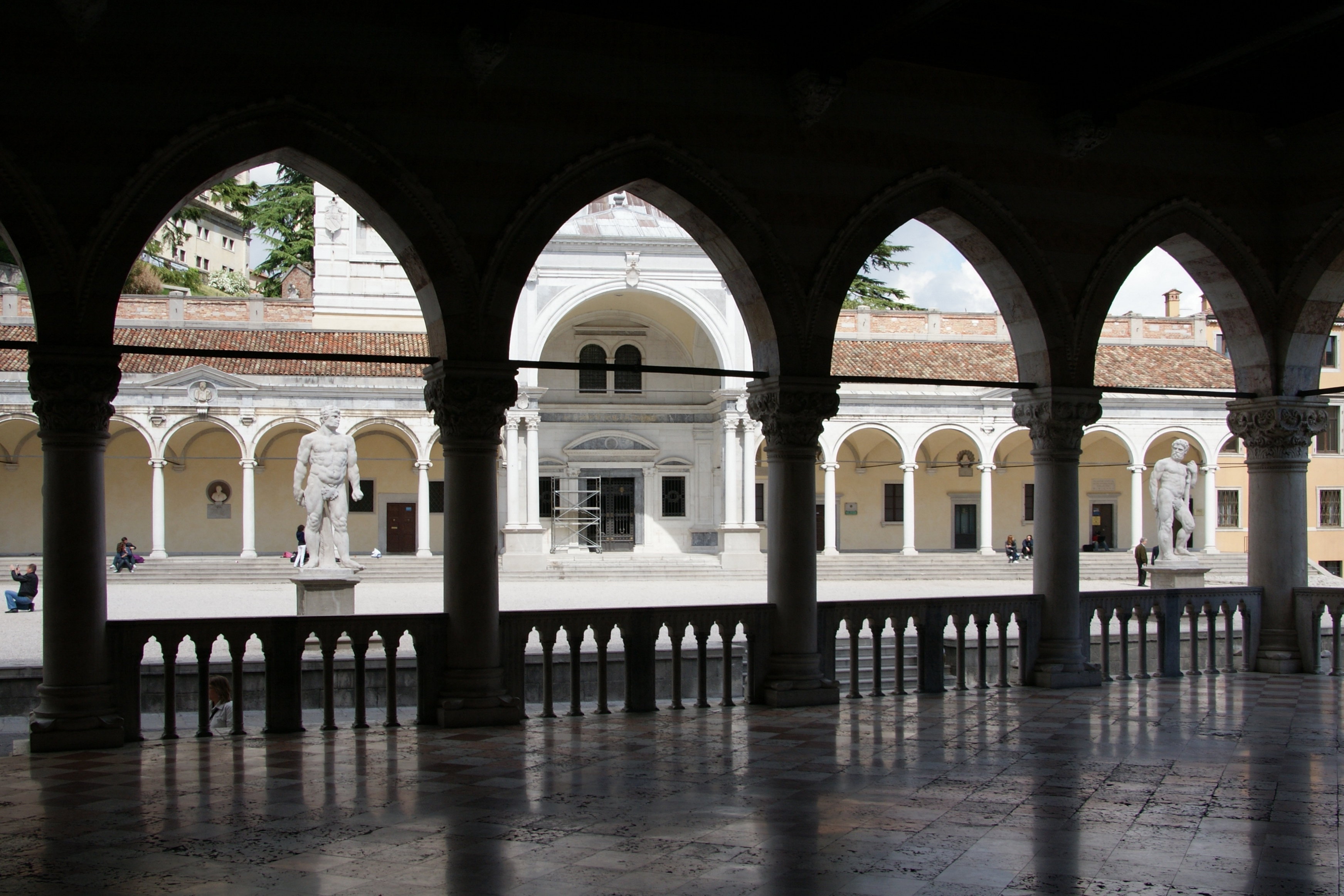 Udine, view from Loggia del Lionello to Loggia di San Giovanni